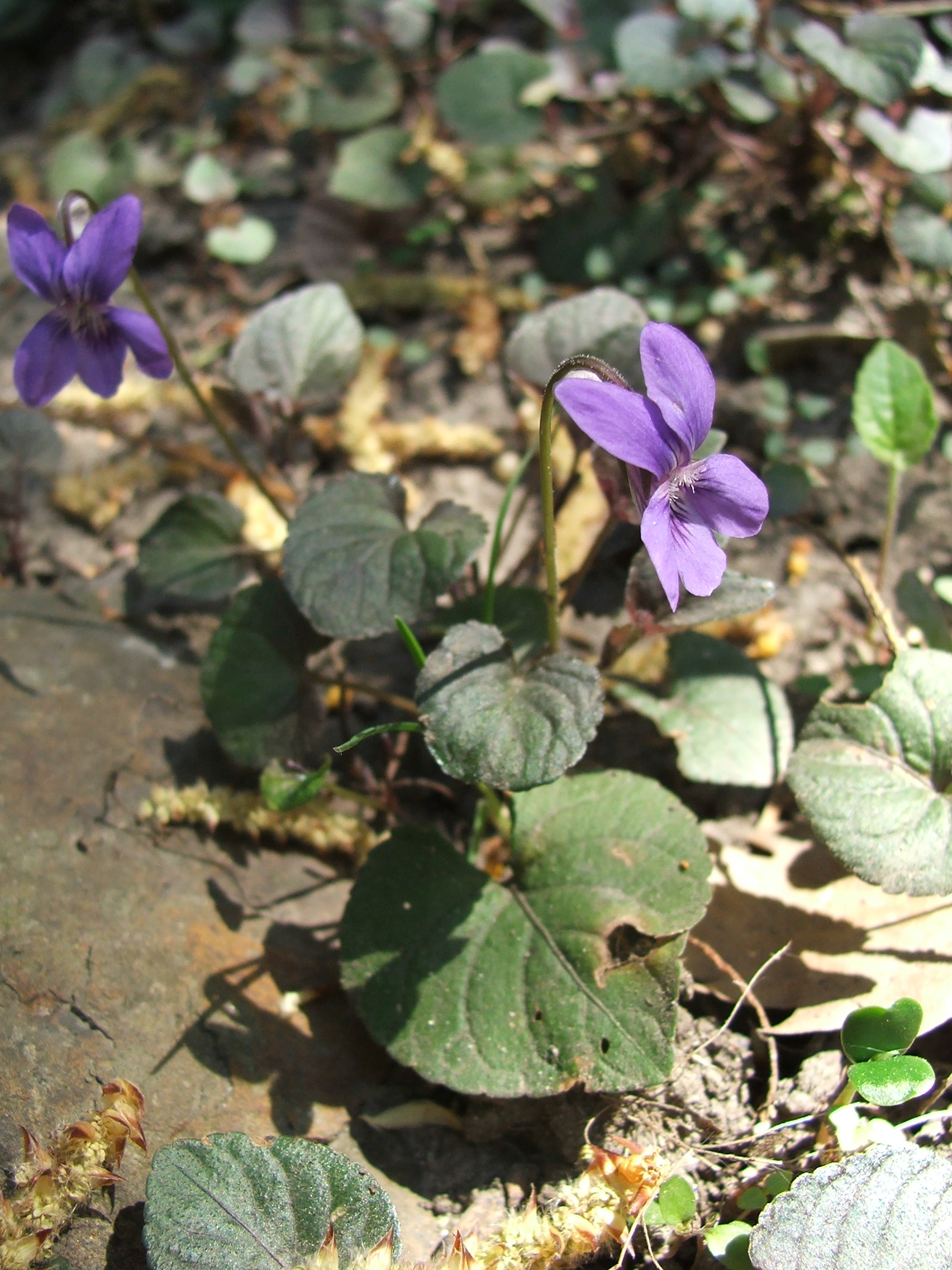 Viola labradorica. MTA Botanic Garden Vácrátót, Hungary.